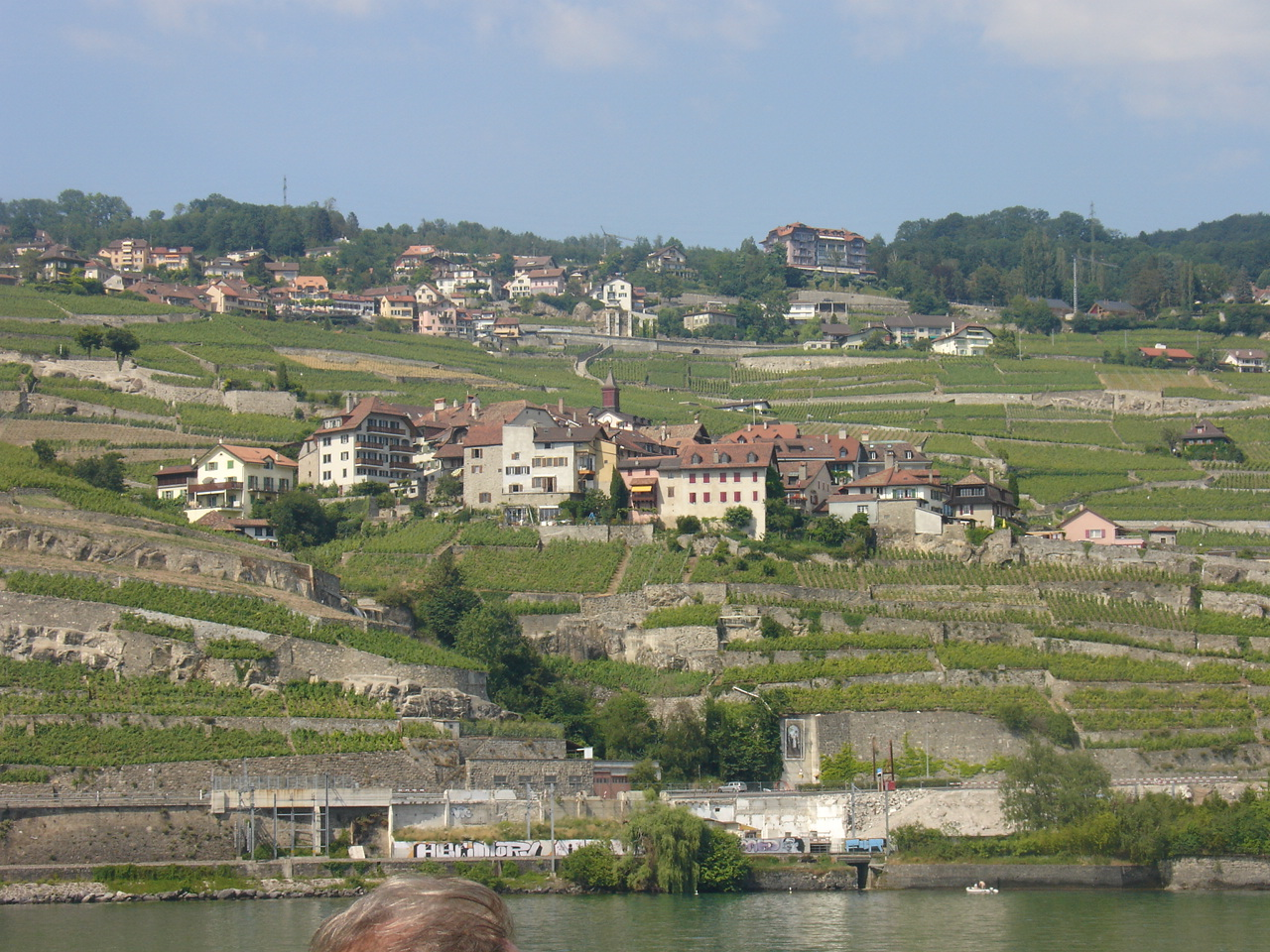 Grandvaux town in Vaud, Switzerland